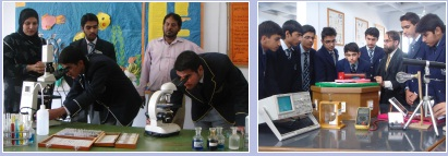 CBS Laboratories